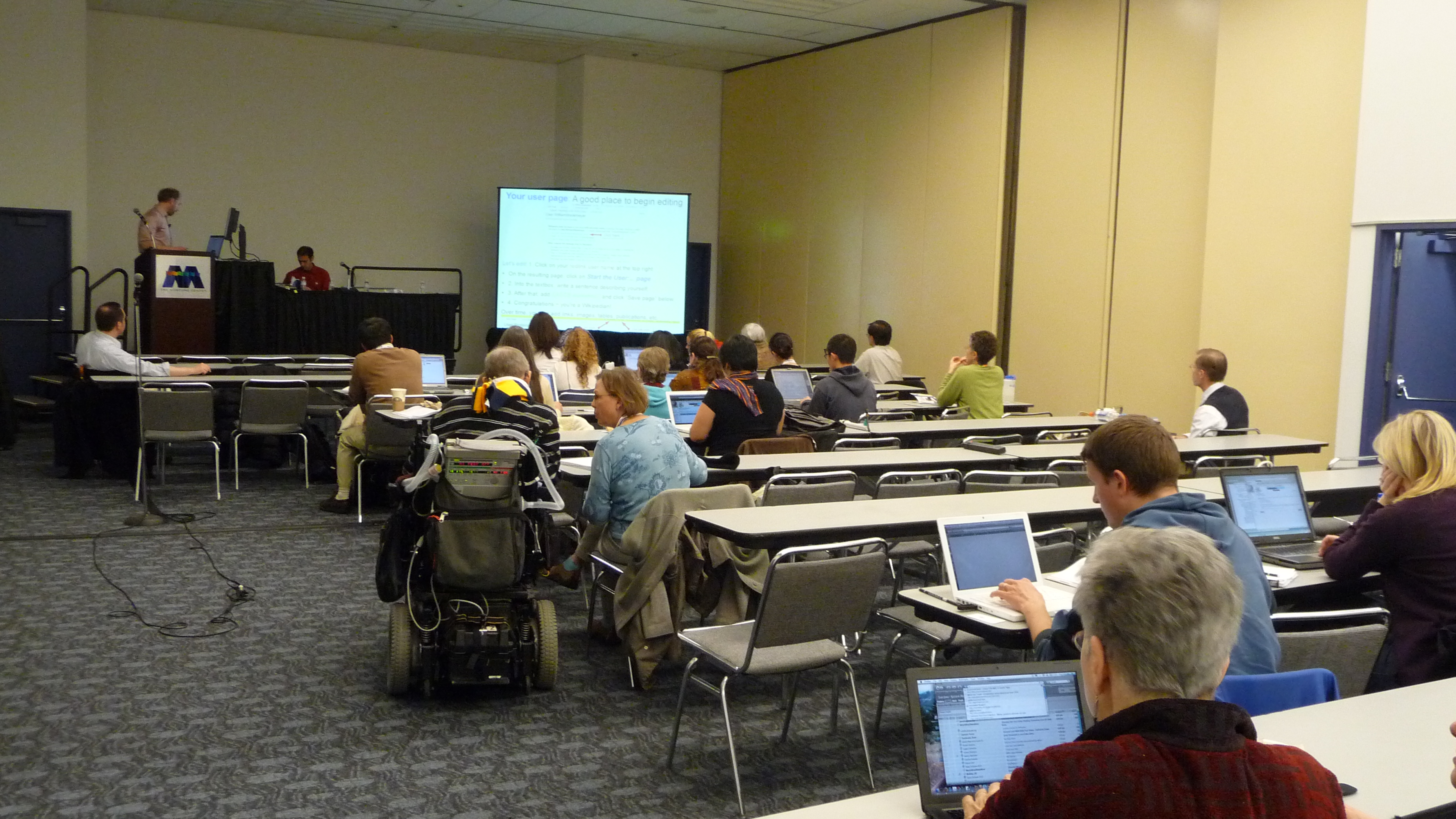 Photograph taken at Wikipedia Workshop at December 2008 ASCB Conference in San Francisco, led by Bill Wedemeyer and Tim Vickers